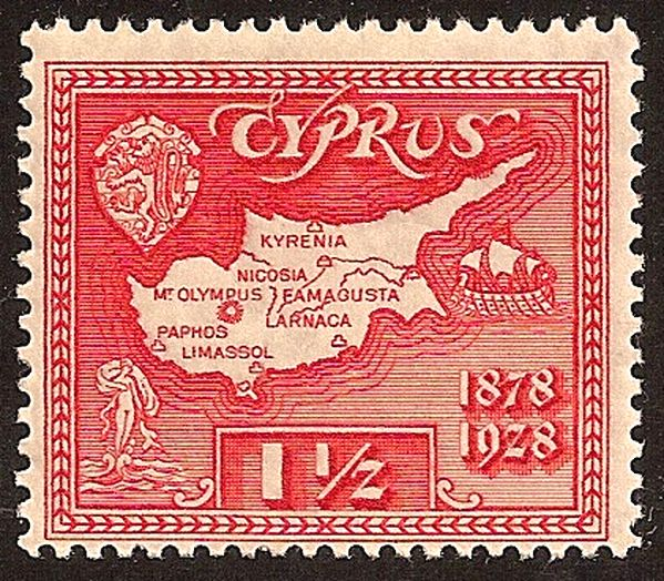 Cyprus postage stamp, 1928 issue.